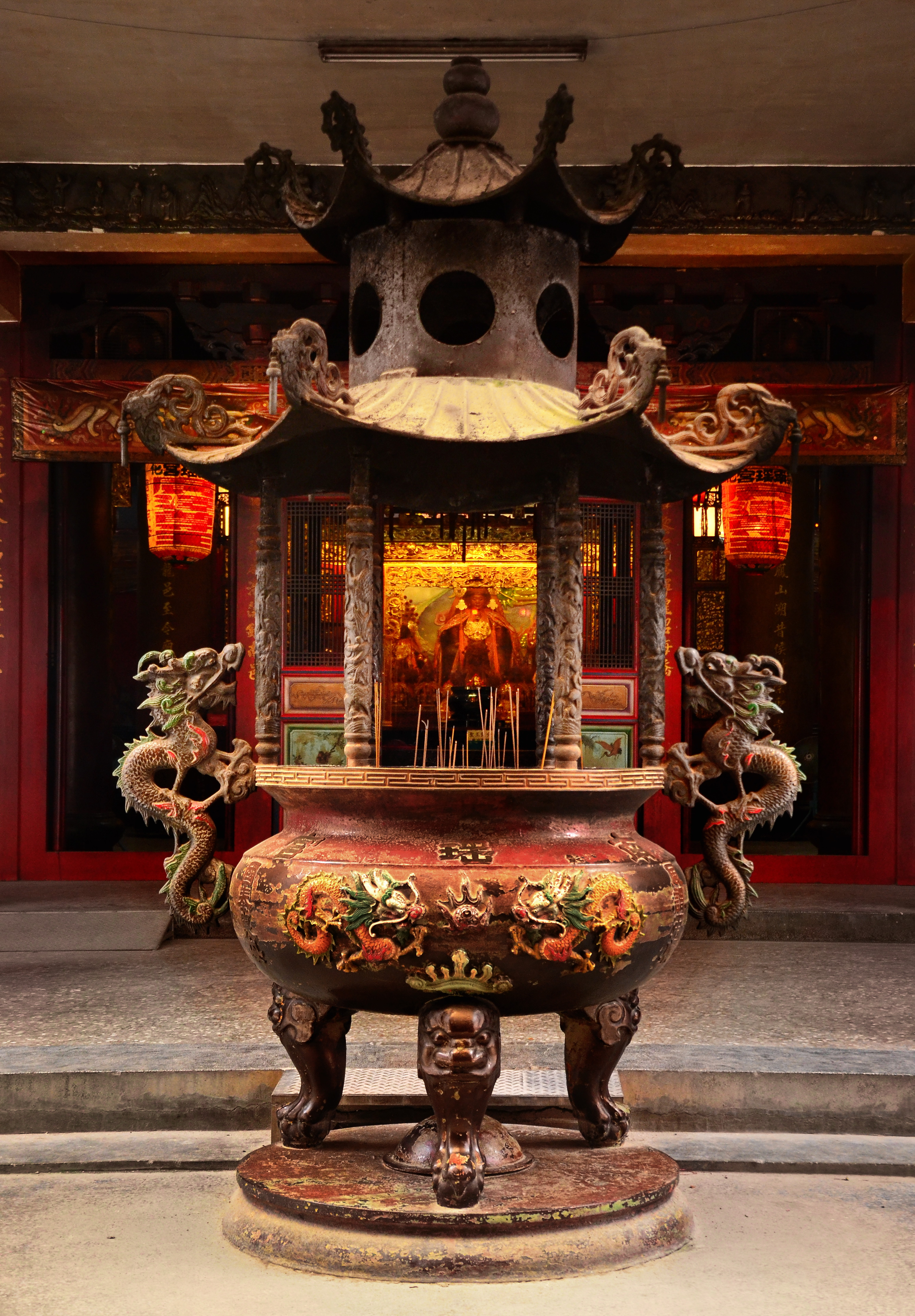 Nan Yau Temple, Changhua County, Taiwan.